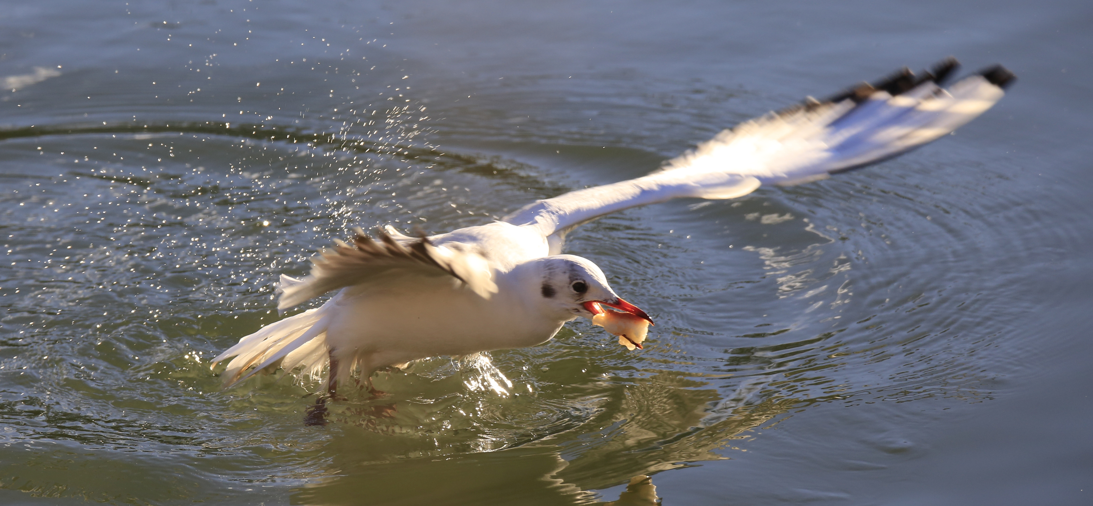 Black-headed Gull Chroicocephalus ridibundus